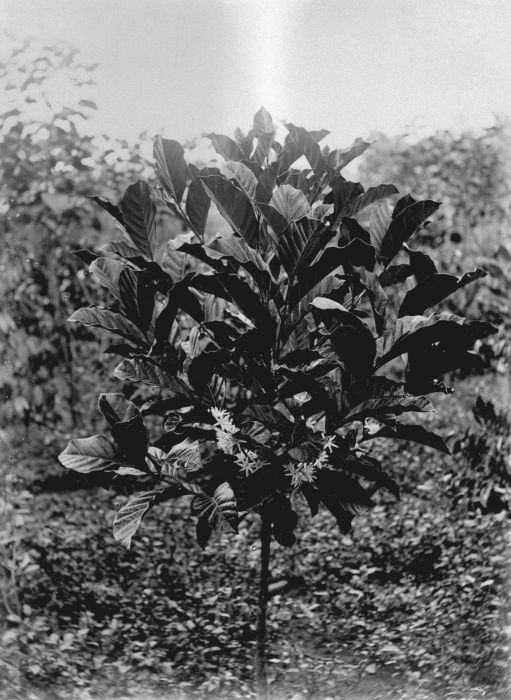 Blooming liberica coffee planted on April 1896. Lampung